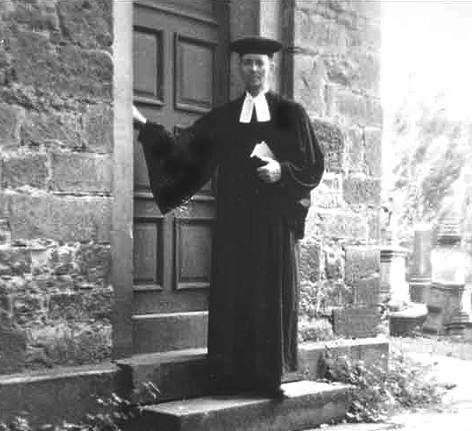 The picture shows the German theologian and missionary scholars Paul Gaebler 1950 in Oesselse near Hanover.